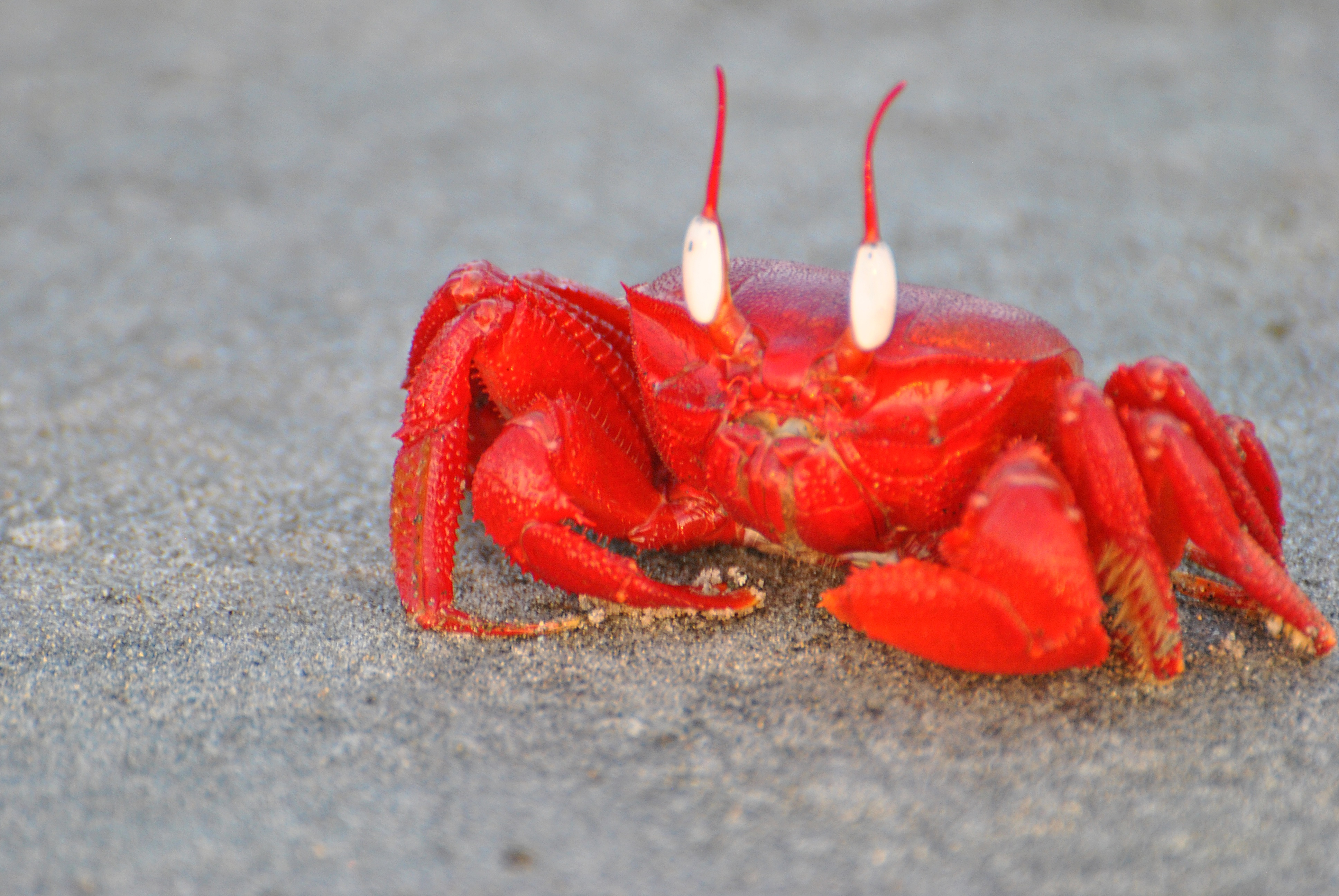 Common Sea - Shore Red Crab in the coastal lines on Bay of Bengal. OCYPODA MACROCERA (H. Milne-Edwards, 1852); ....Phylum - Arthropoda, Sub Phyl. - Crustacea, Class - Malacostraca, Order - Decapoda, Infra Ord. - Brachyura, Family - Ocypodidae, Sub Fam. - Ocypodinae